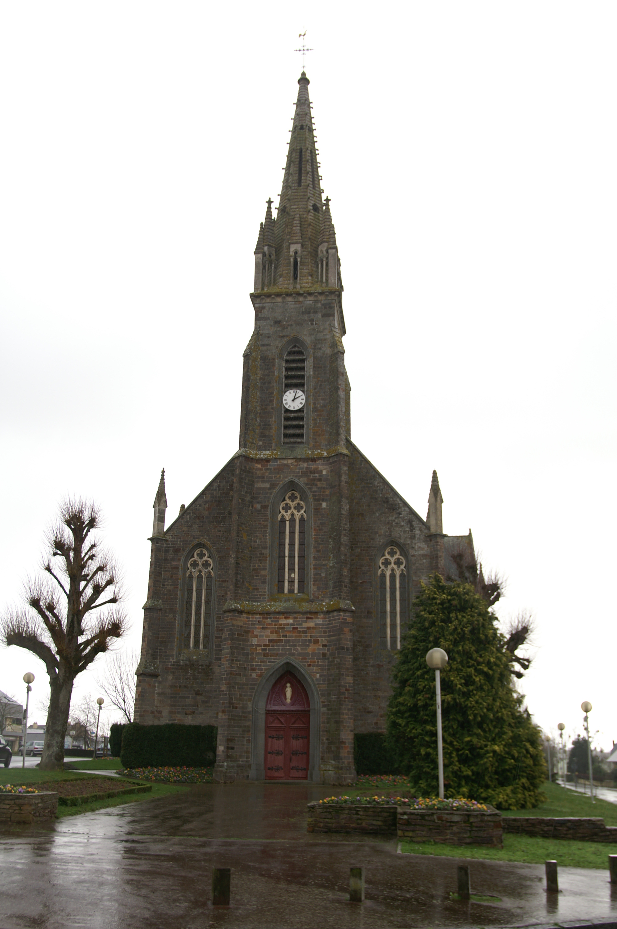 Church of Chavagne.